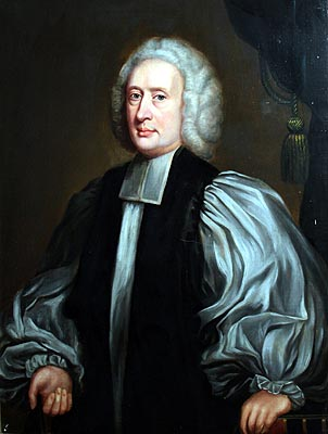 Joseph Butler, Bishop of Bristol and Durham